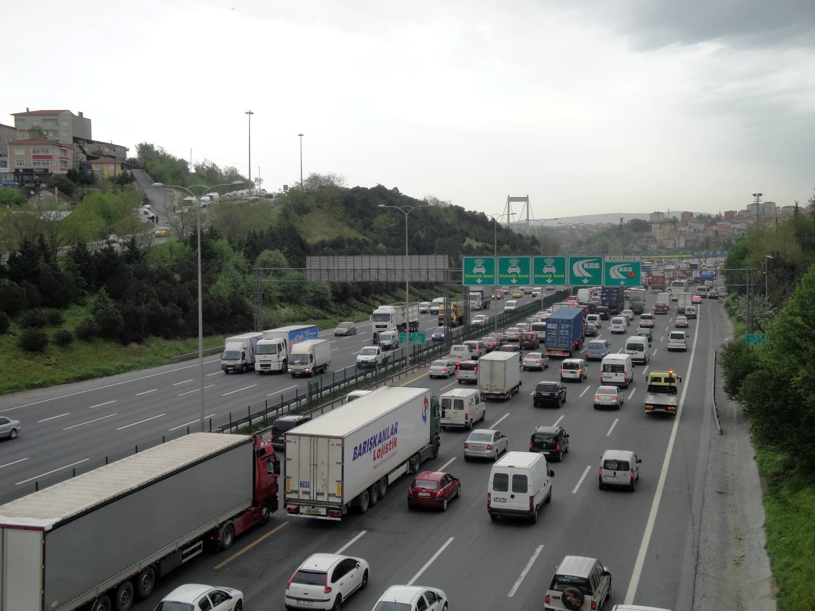 Otoyol 2, just before the toll station on the European side of the Fatih Sultan Mehmet Bridge in Istanbul, Turkey